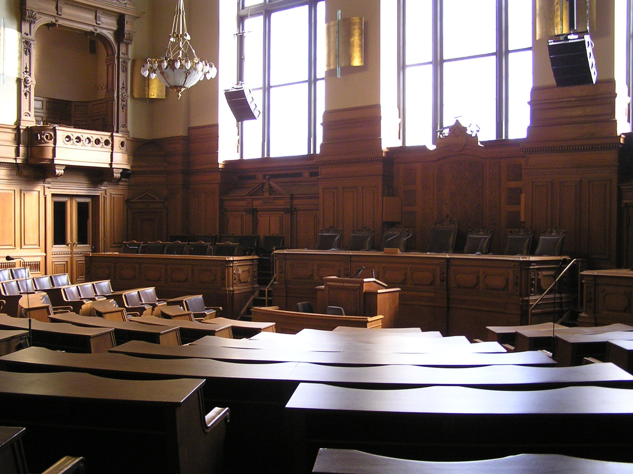 Room of the Hamburg Bürgerschaft (parliament)